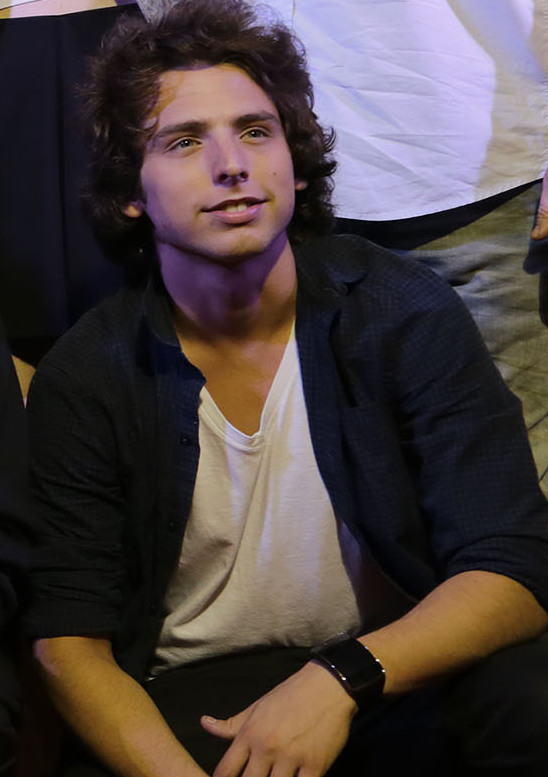 Baires. Diciembre 21 de 2014. El jefe de Gobierno porteño, Mauricio Macri, saludó hoy a la artista juvenil Martina “Tini” Stoessel, quien fue la máxima atracción del Eco Fashion Show que se realizó en Parque de San Benito (Figueroa Alcorta y La Pampa) como parte de la tarea que realiza la Ciudad para concientizar sobre el cuidado del medioambiente.Foto Monica martinez-gv/GCBA.